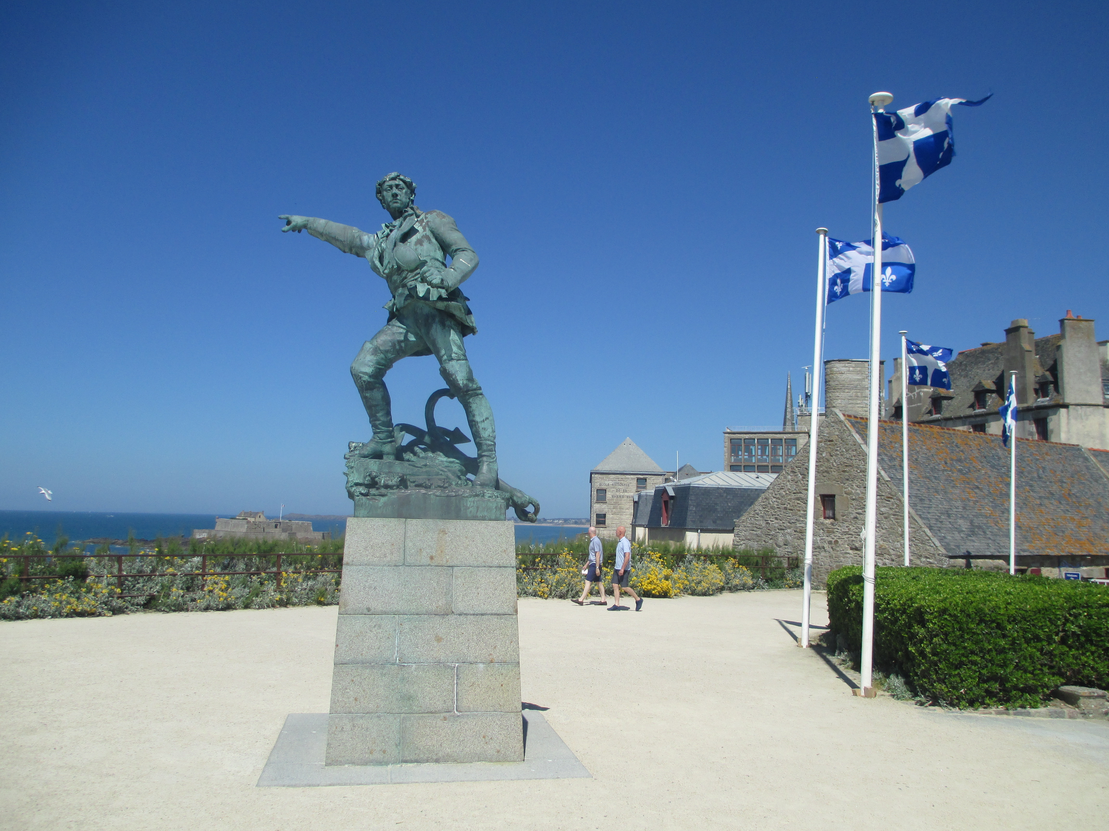 Statue of Robert Surcouf in Saint- Malo